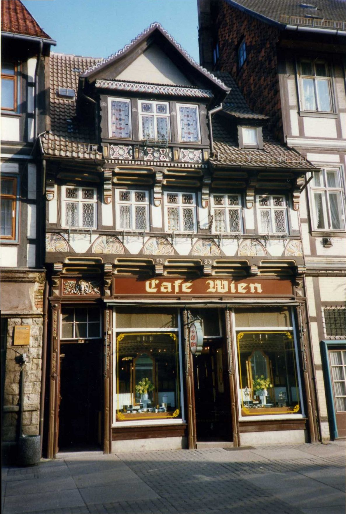 Cafe Wien, Breitstr. Wernigerode, DDR May 1990 Another angle (photo this time) of the Cafe Wien, built i 1583 in WERNIGERODE, Harz.